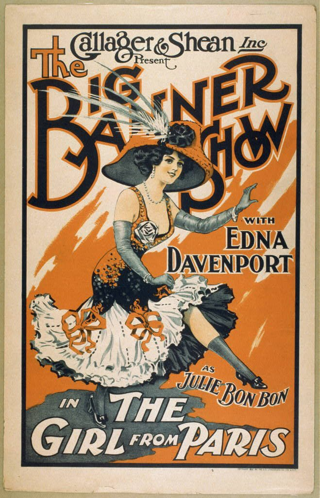 Actress Edna Davenport